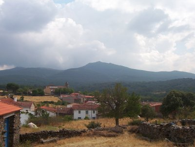 Luis Pueyo It's a picture taken by me